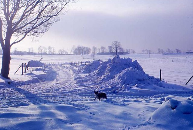 Winter of 1962–1963 Original description: Ormerod House - cleared snow and resident Early 1963 - viewed from bottom of driveway towards Foxstones Lane across horizon